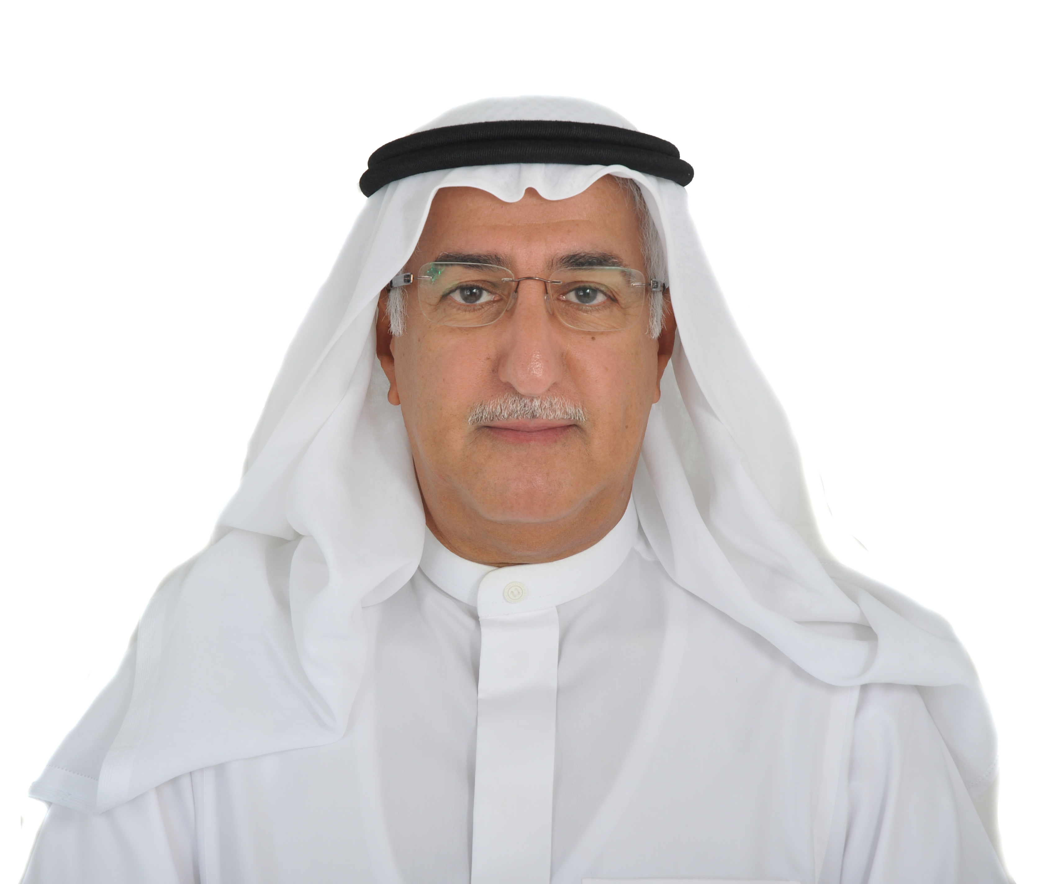 HE Dr Fahad Almubarak Official Photo